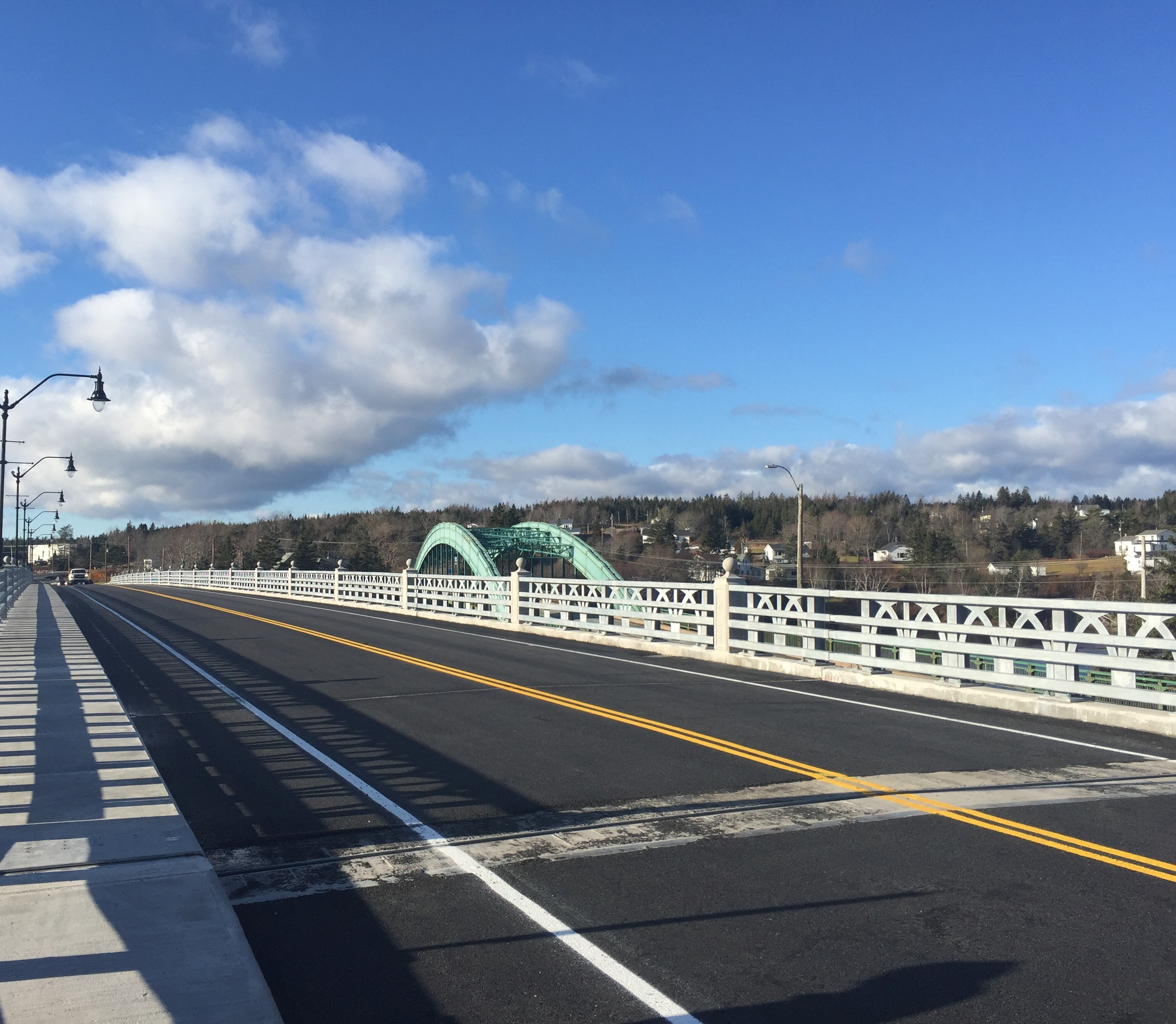 The East River Bridge in Sheet Harbour, Nova Scotia, as viewed from the Watt Section side.